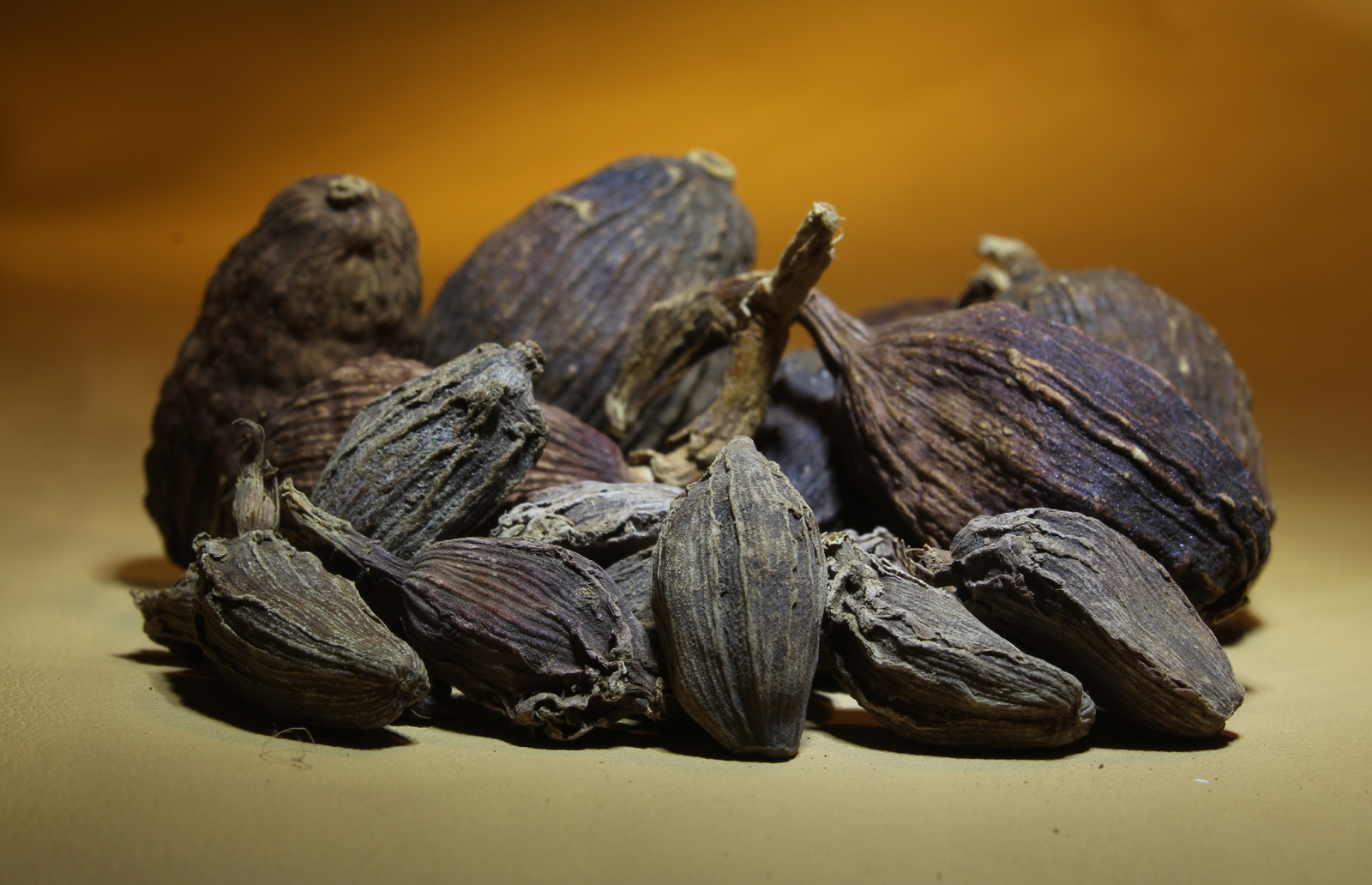 Black cardamom